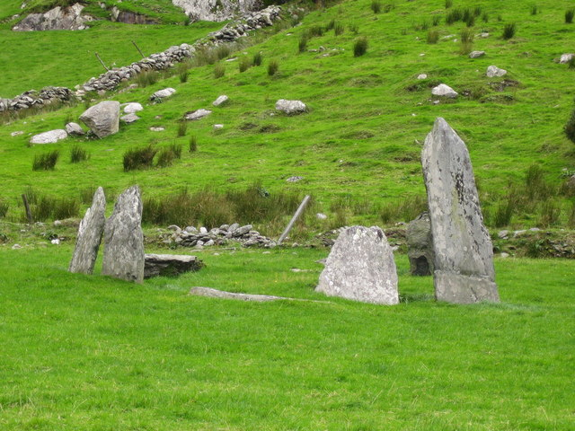 Shronebirrane Stone Circle Shronebirrane Stone Circle, also known as Drumminboy, stands at the end of the road up the Drimminboy valley. Of the original thirteen stones, six still stand including the eastern portal stone at about 2.6 metres high.